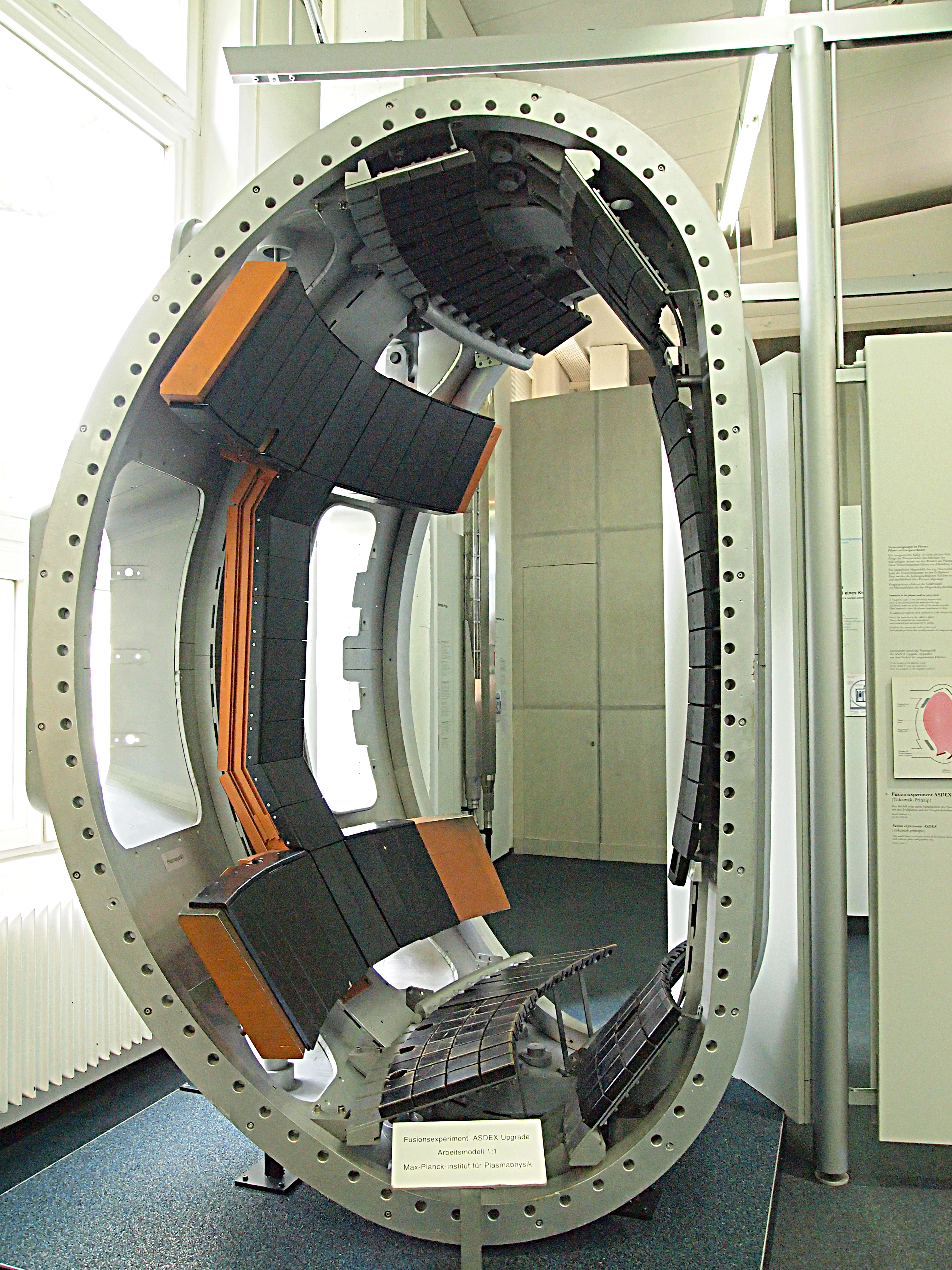 ASDEX Upgrade real-size model in Deutsches Museum, Munich. This photograph was taken with an Olympus E-PL1